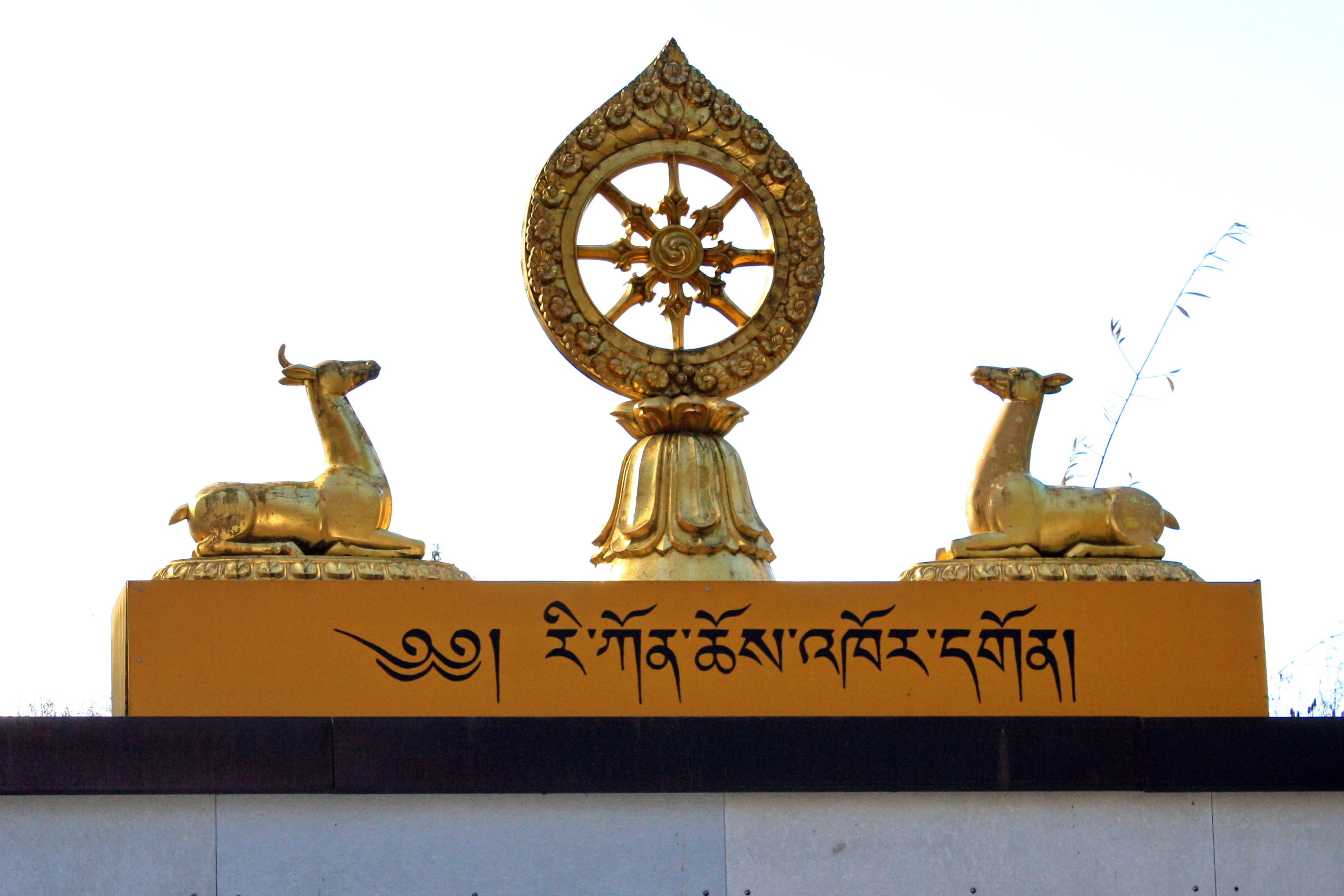 Tibetan monastery Tibet Institute Rikon in Zell-Rikon (Switzerland).